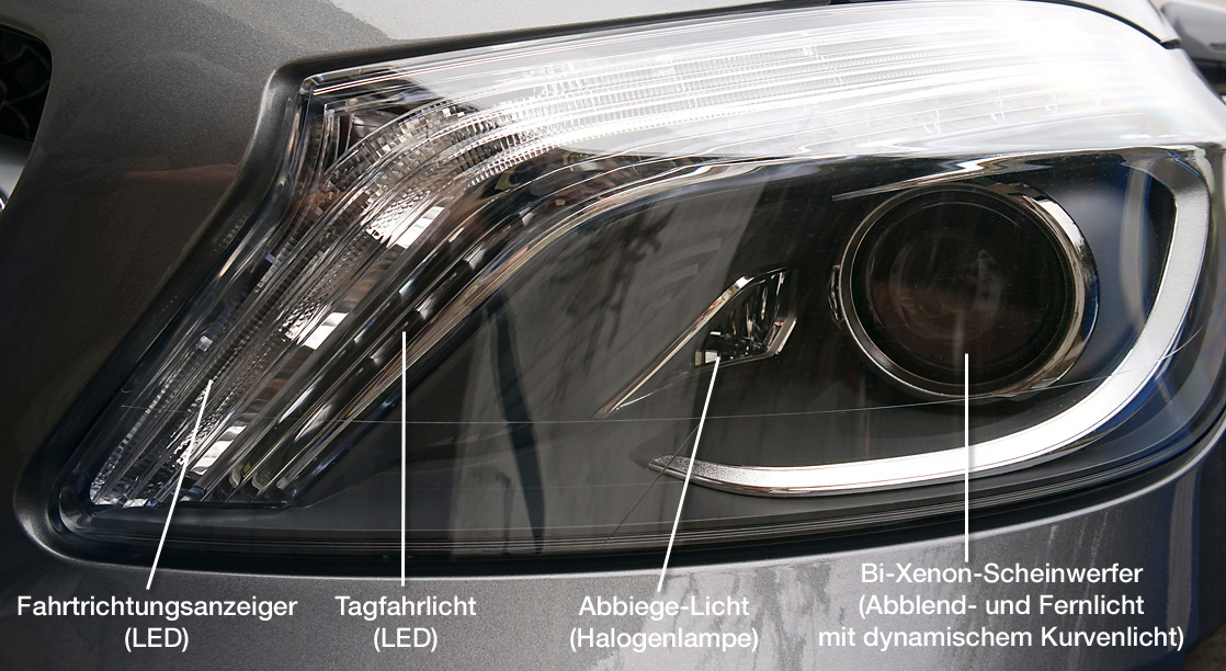 Headlamp of a Mercedes A-Class car (W176) equipped with Intelligent Light System